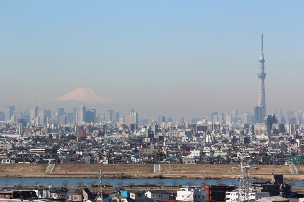 Mt.Fuji & Tokyo SkyTree - viewed from a building in Ichikawa, Chiba (most likely, close but not from I-link town Ichikawa)